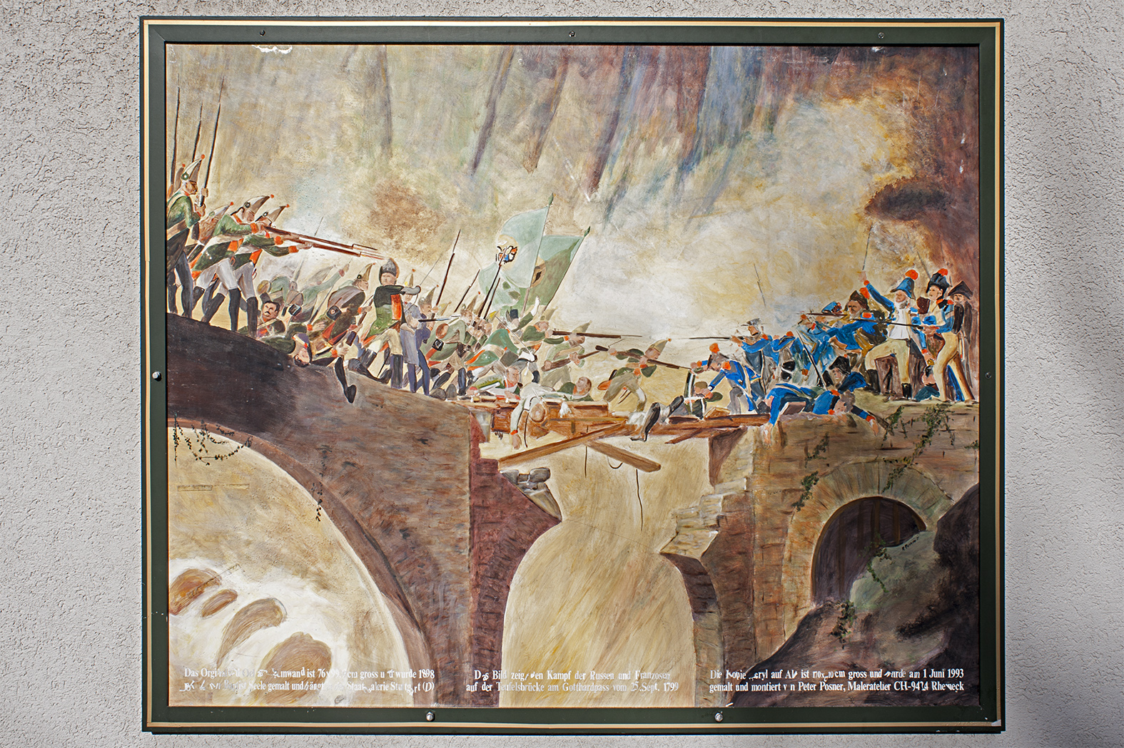 Devil's bridges in the Schöllenen canyon; Uri, Switzerland. The painting shows the attack of the Russians on 25 September 1799 from the left on the bridge partially destroyed by the French[1]. Copy by Peter Posner, 1993. Original painting (1898) by Johann Baptist Seele, at the State Gallery in Stuttgart.